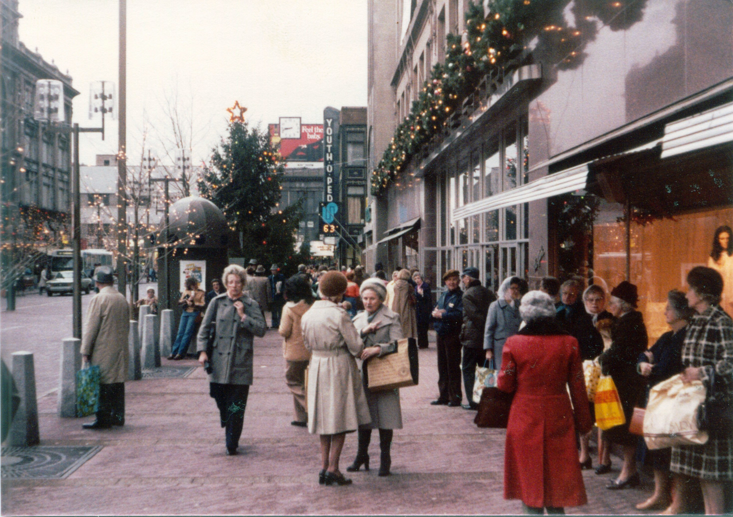 Waiting for the bus in front of the Globe store, December, 1978